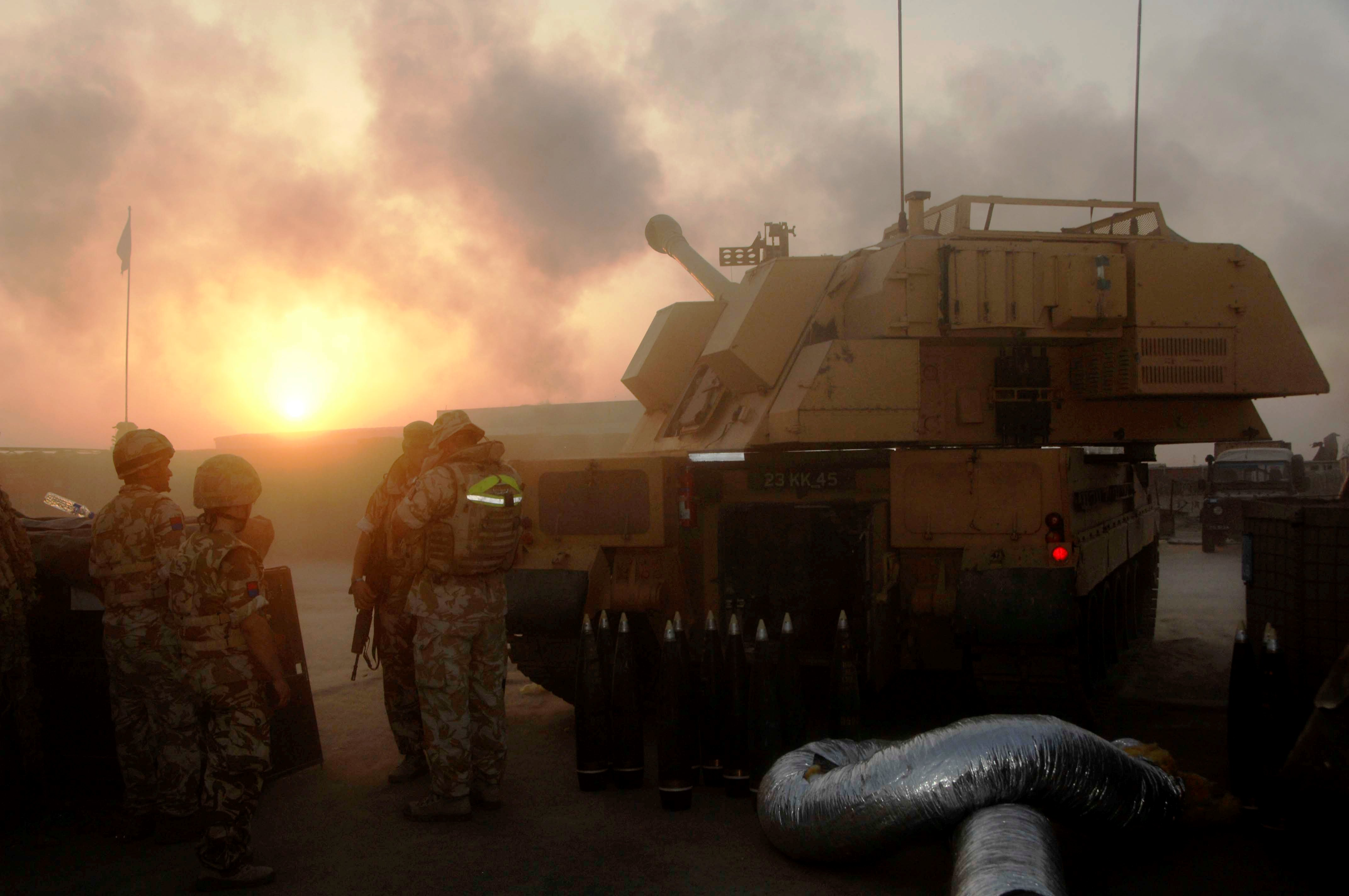 An AS90 fires for calibrating the artillery piece.